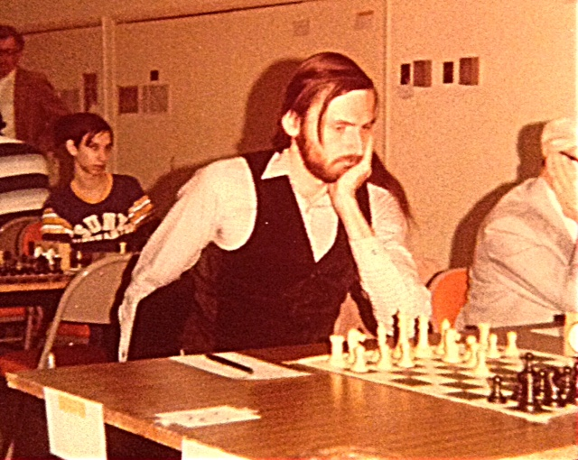 Andy Soltis 1981